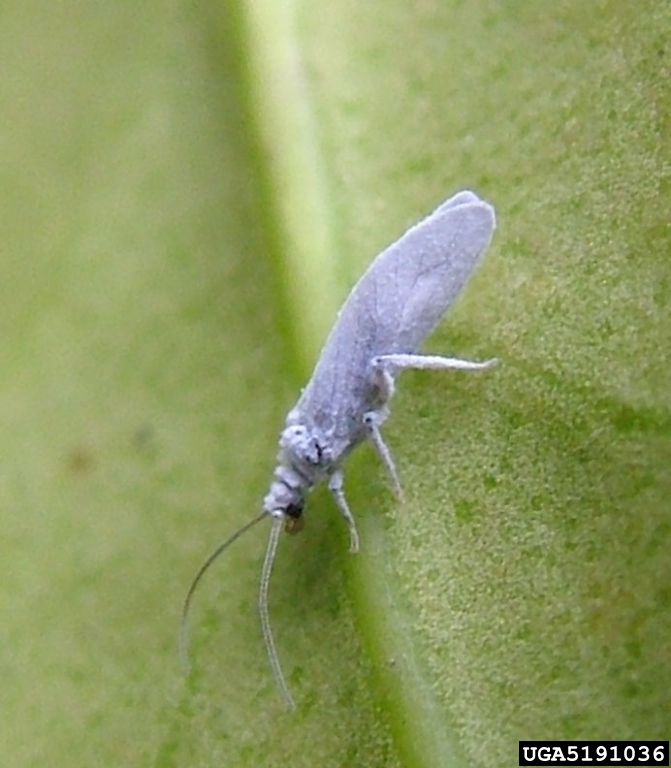 a species of Coniopterygidae found under leaf of Ilex aquifolium at Boulevard Park, Seattle, Washington, United States